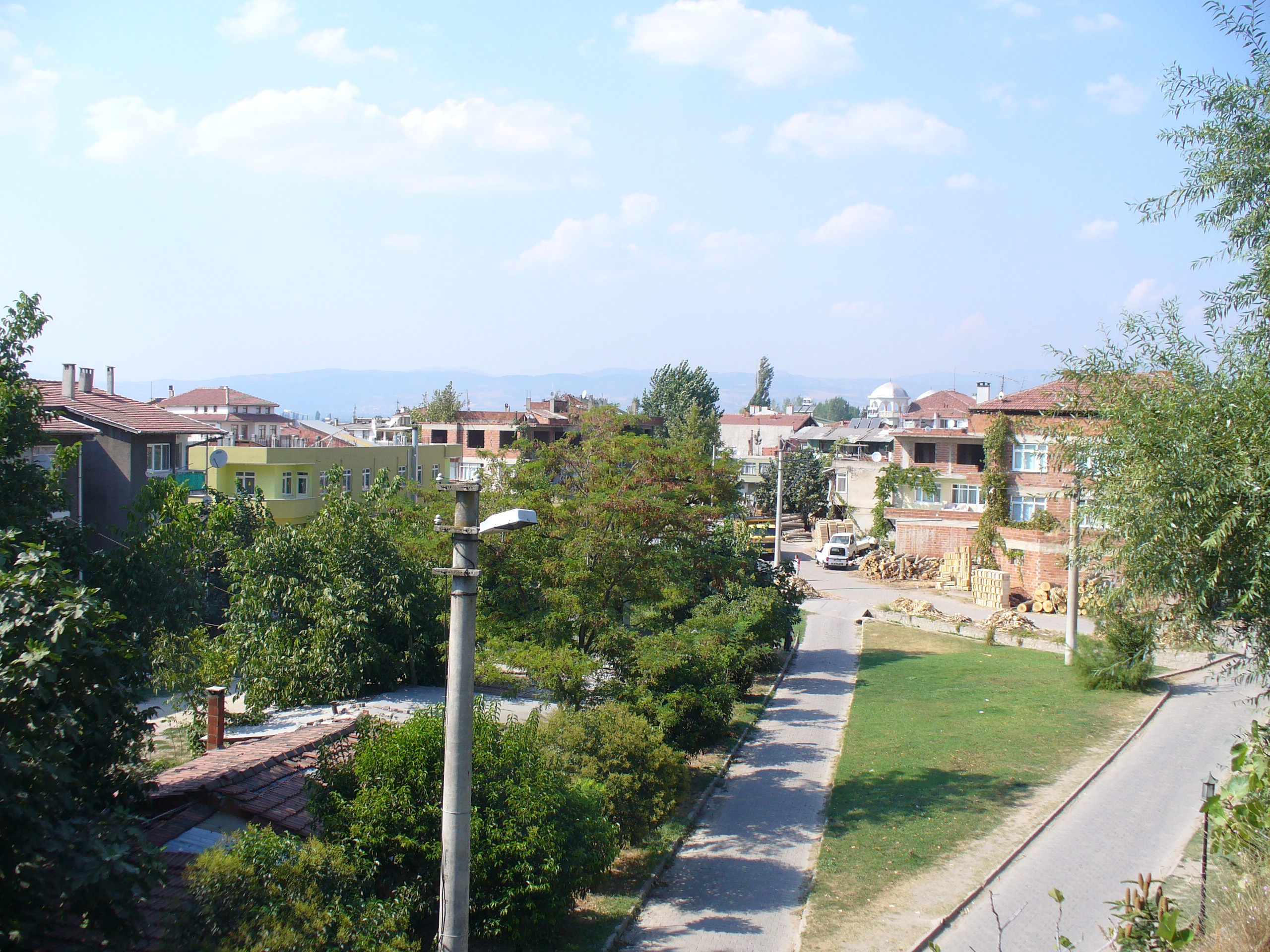 A view of Iznik from the Istanbul Gate.